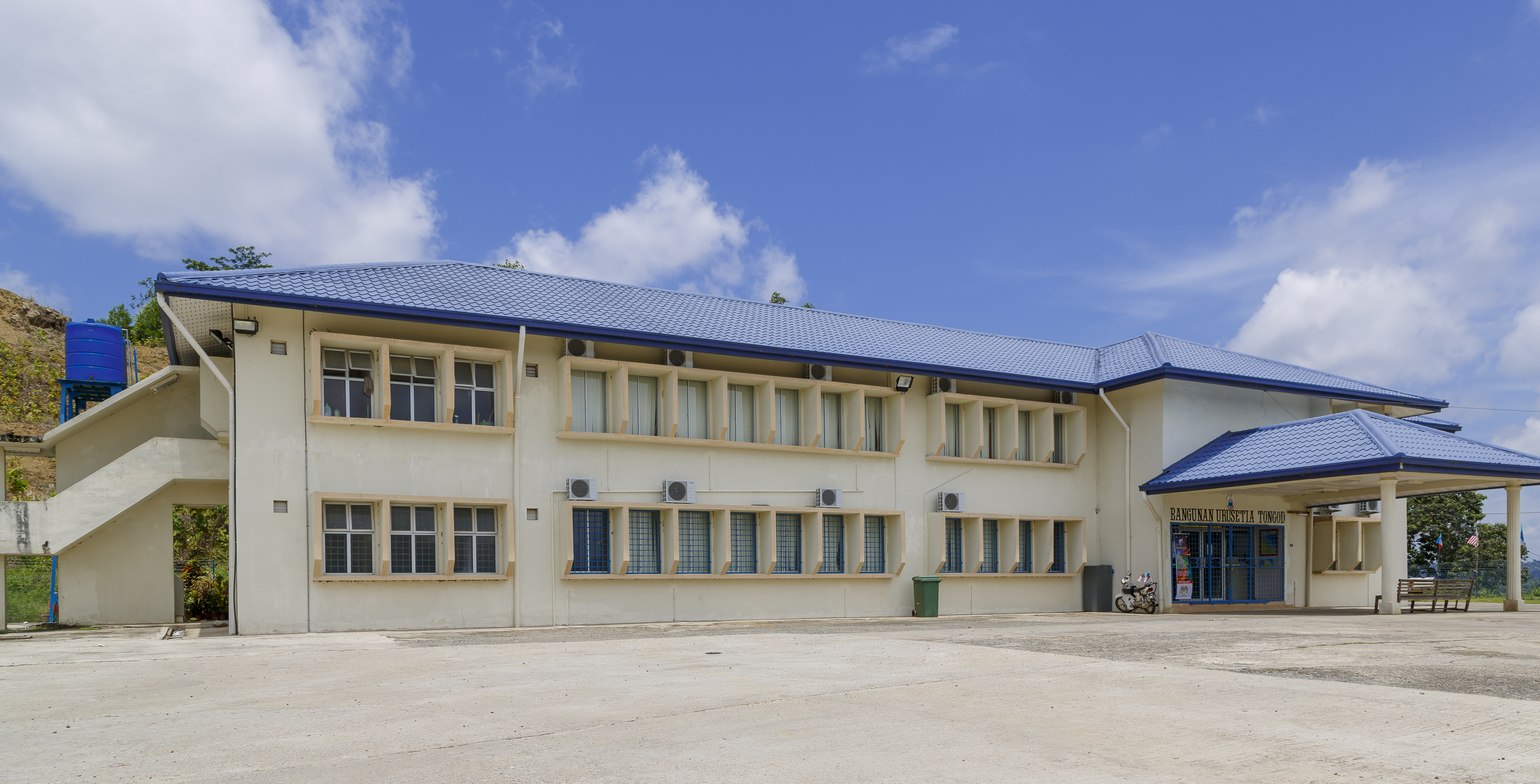 Tongod, Sabah: Bangunan Urusetia Tongod